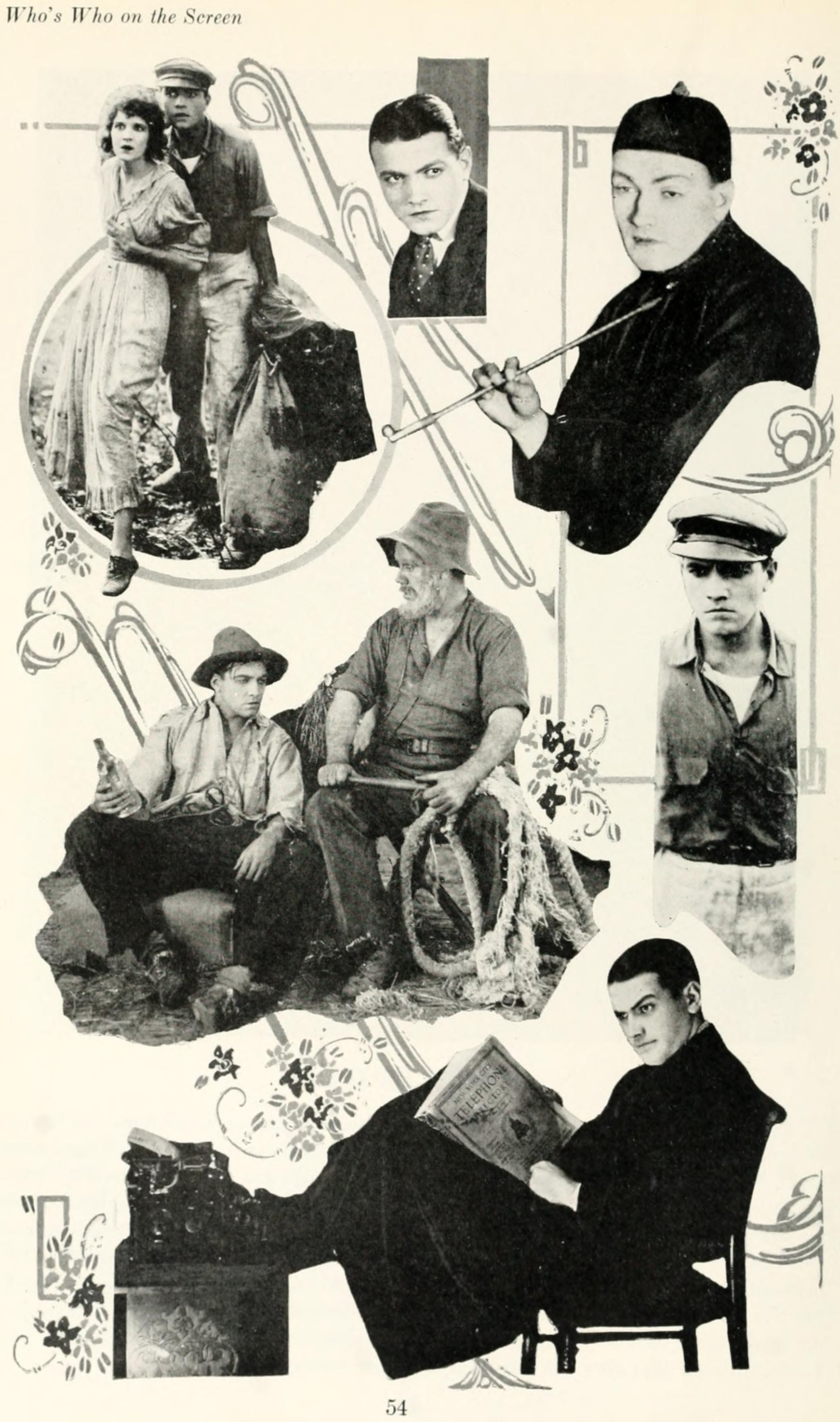 Collage of Richard Barthelmess in Who's Who on the Screen, 1920.